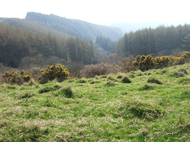 Mysterious valley Pre-WW2 maps shows this as a deciduous wooded valley and the ruined dwelling from which this picture was taken must have had a beautiful view. However a Royal Naval Armaments Depot was established at Trecwn in 1938 since when the valley has been a no-go area, shrouded by dark conifer plantations and guarded with a high fence and other security devices. Tunnels were bored into the steep valley sides for ammunition storage and the depot was supplied by its own branch railway line. In the 1990's plans to store nuclear waste in the underground facilities were fiercely opposed by the local community but the valley remains closed and, to date, serves no useful purpose.